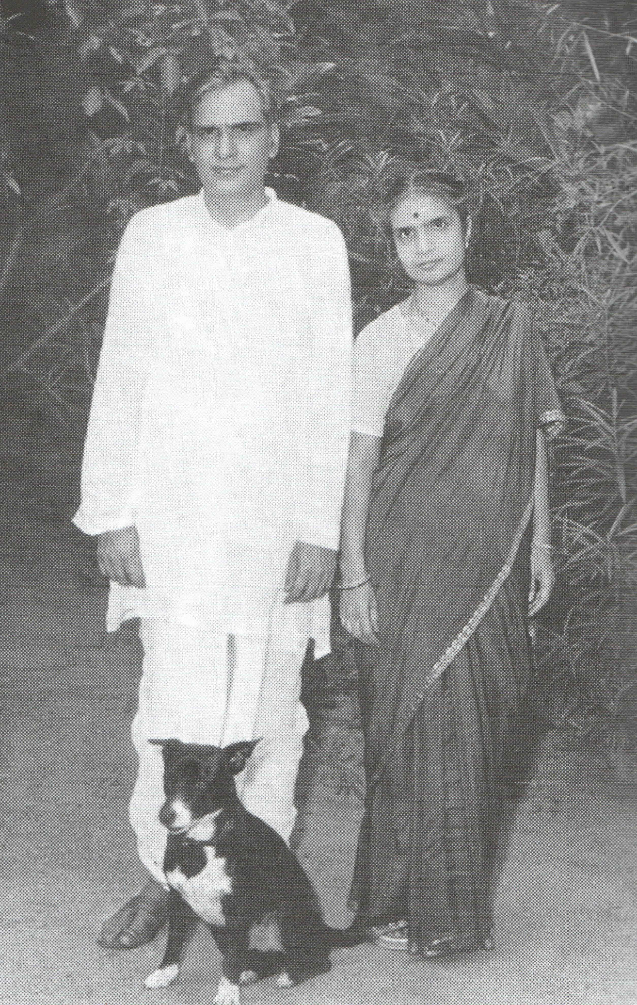 Sambhu Prasad S with hid wife Smt Kamkshamma and their Pet Dog Tchaikovsky